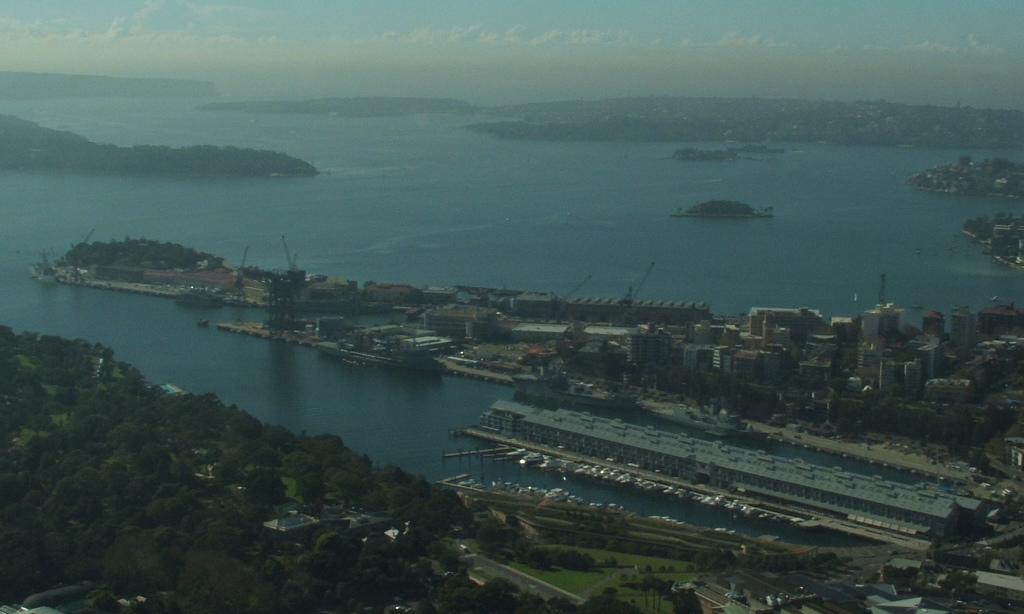 Photograph of Fleet Base East, the main Australian Naval base on Sydney Harbour. Taken from the observation deck of Centrpoint Tower